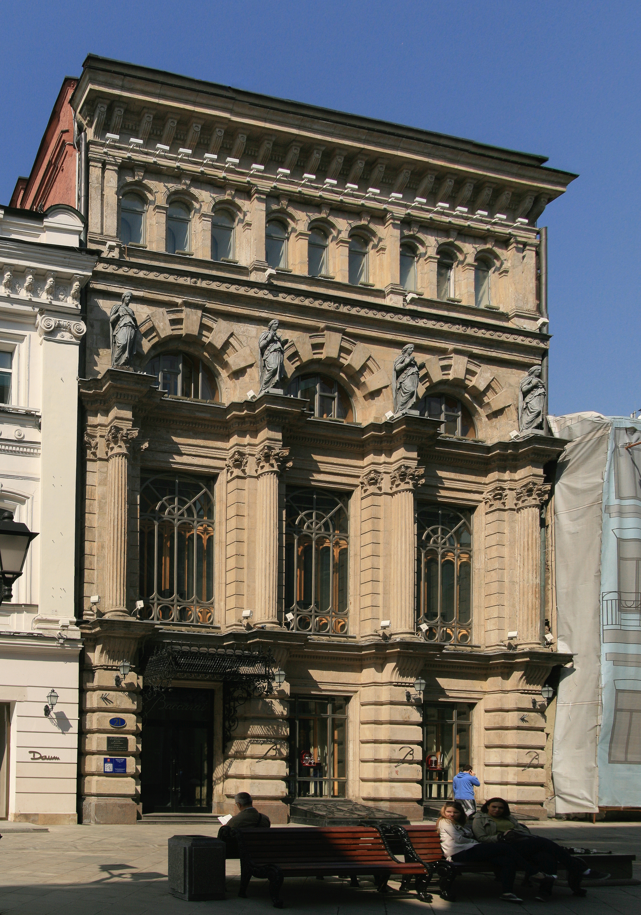 Ferrein's apothecary, Nikolskaya street 21, Moscow